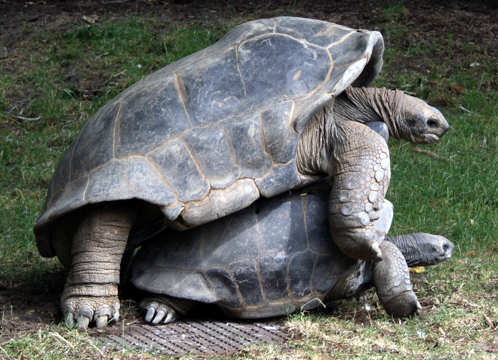 Aldabra_tortoises_mating. Scientific name: Geochelone gigantea, Aldabrachelys gigantea Schweigger, 1812; Dipsochelys dussumieri